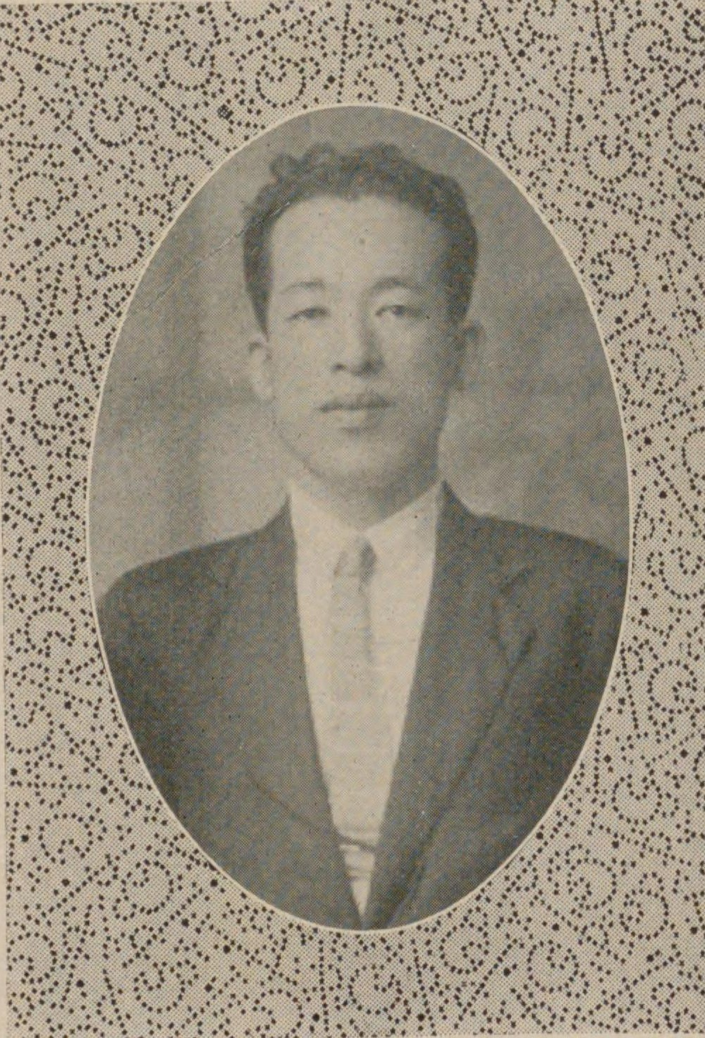 Japanese novelist, Yumeno Kyūsaku. From "the complete works of Japanese detective fiction, vol.11",1929.